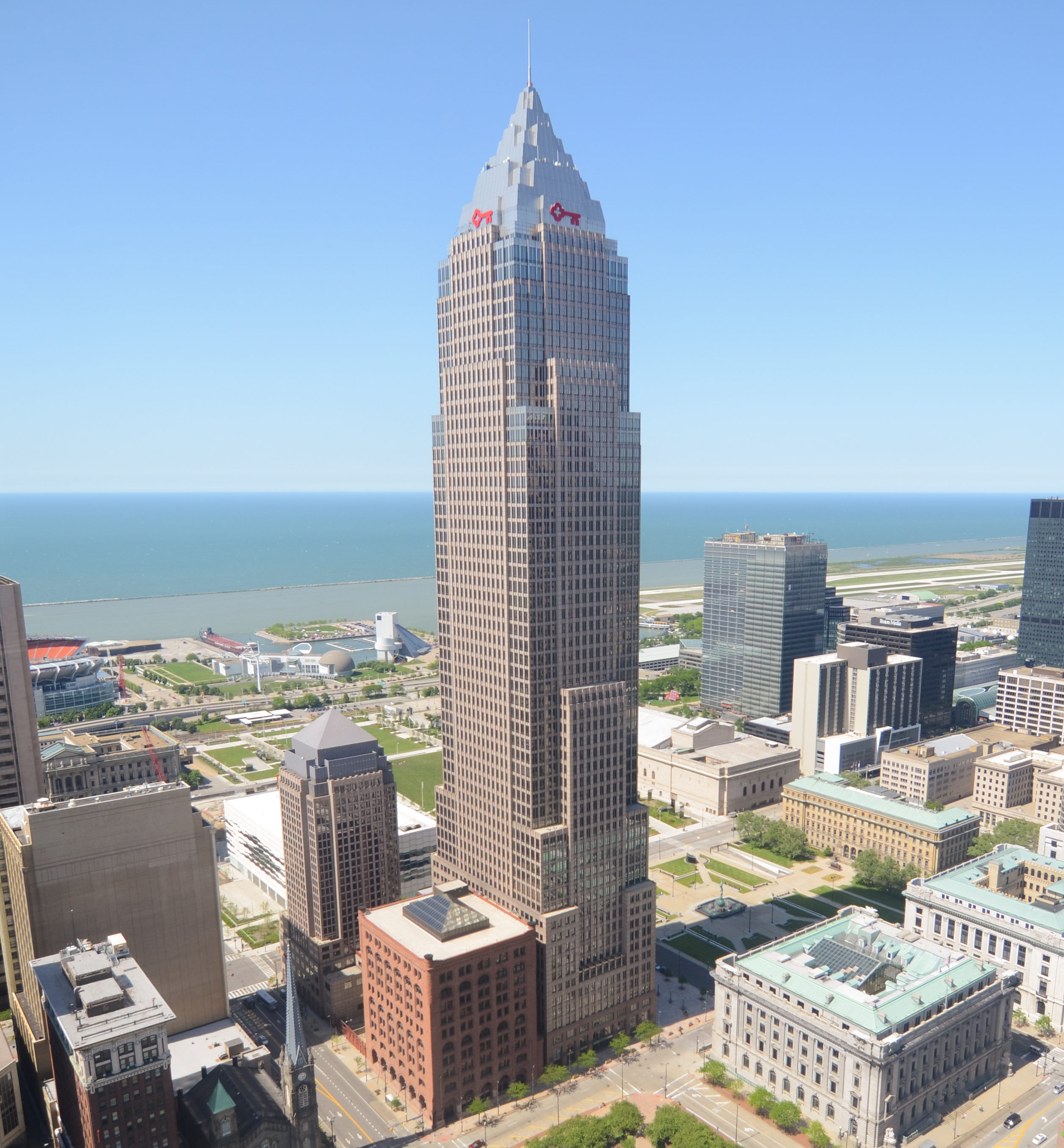 Downtown Cleveland's Key Tower, as seen from the Terminal Tower observation deck